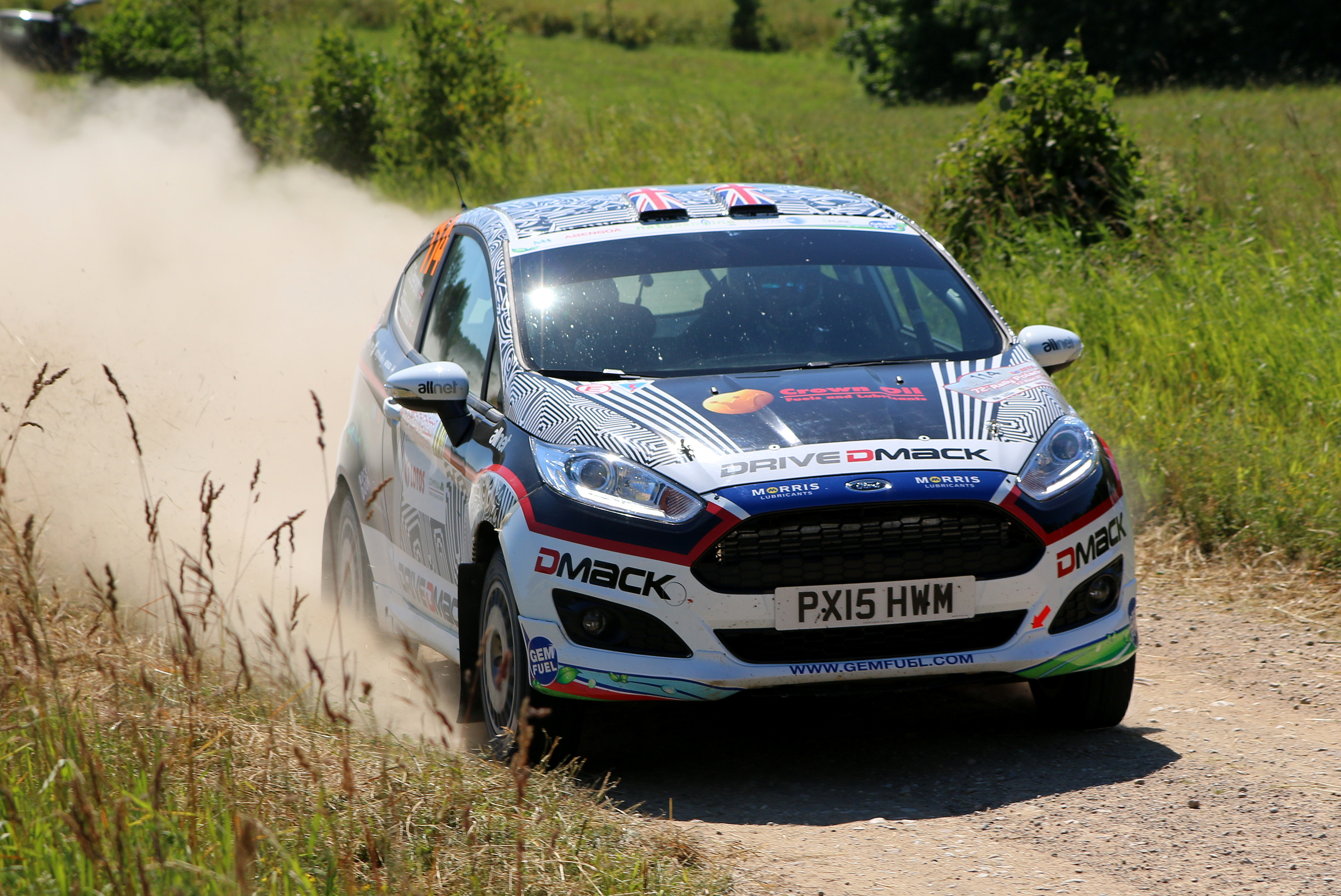 Gus Greensmith, OS 10 Mazury, 72nd LOTOS Rally Poland